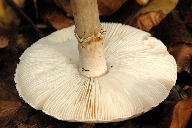 Amanita citrina from Commanster, Belgium. The determination of the species shown in this picture has been verified.